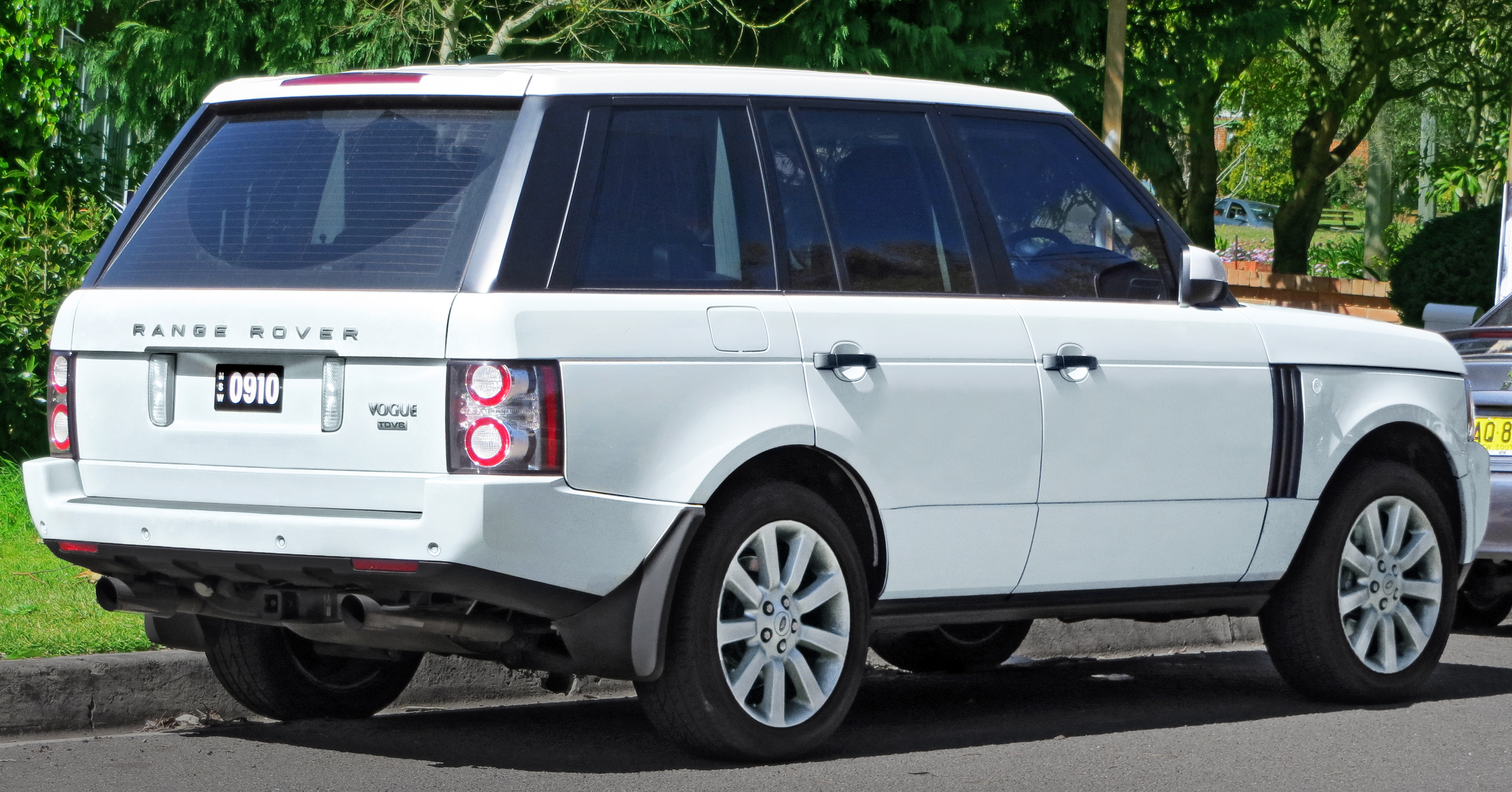 2009–2010 Land Rover Range Rover Vogue (L322 10MY) TDV8 wagon. Photographed in Miranda, New South Wales, Australia.